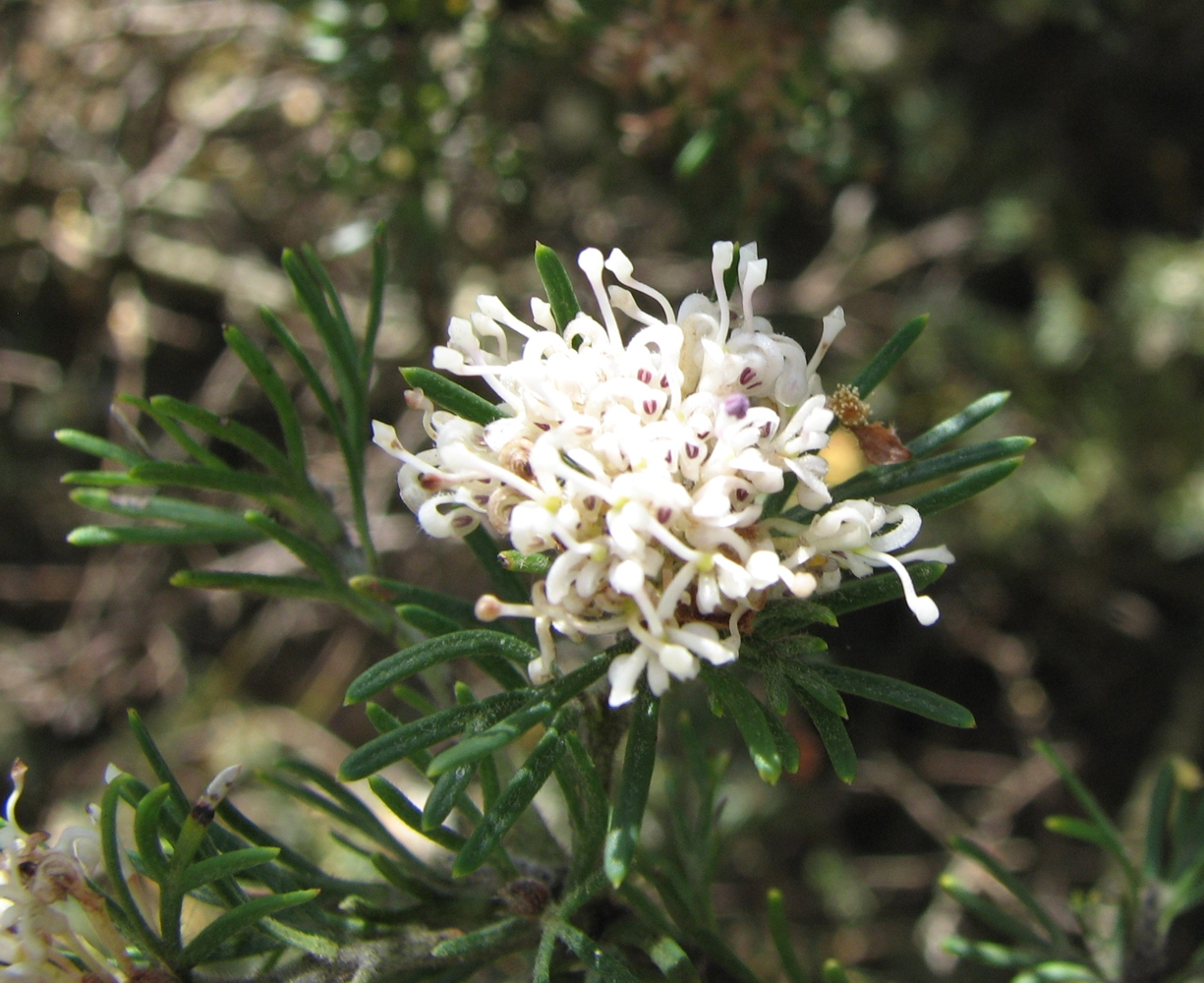 Grevillea crithmifolia (prostrate decumbent form) (cultivated, labelled) Maranoa Gardens, Balwyn, Victoria, Australia